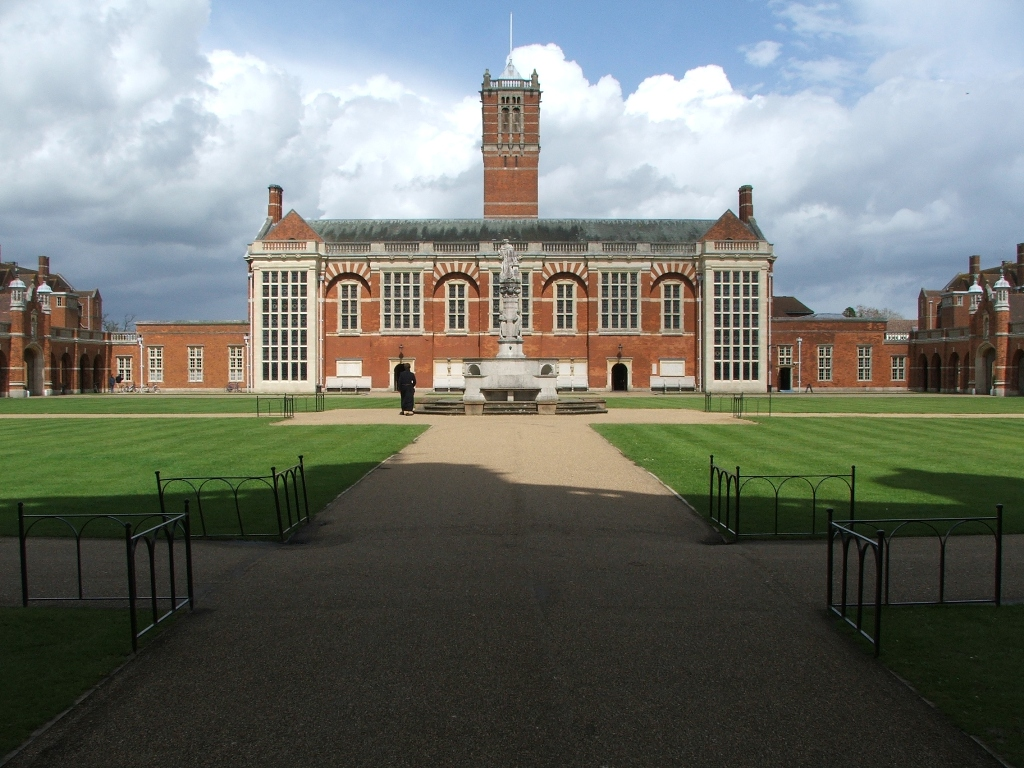 By Sergiu Panaite, April 2006 View of the Christ's Hospital quad in Horsham, West Sussex, England